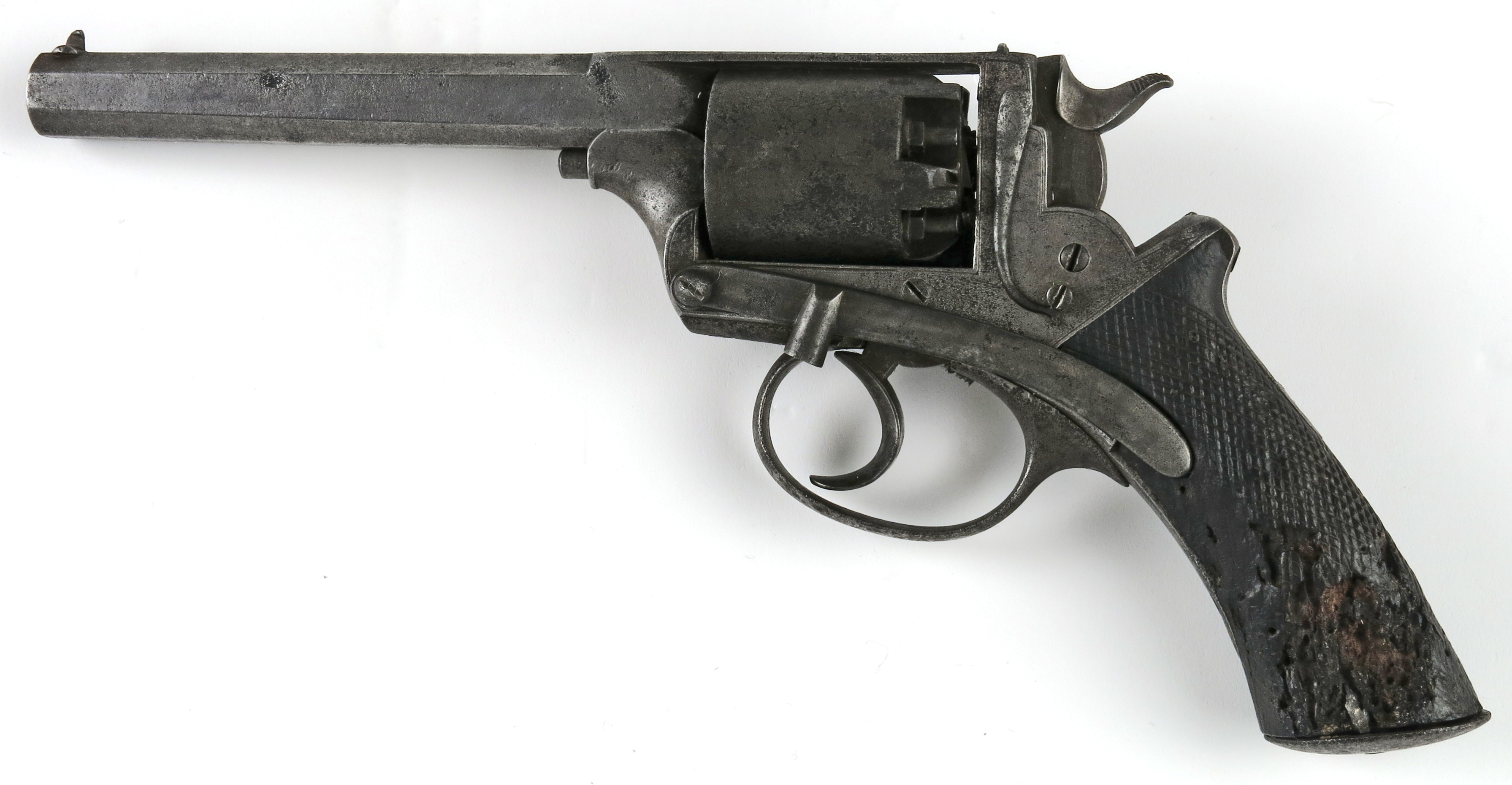 Adams double action percussion revolver 5 shot percussion revolver; .45 inch calibre; solid frame; Robert Adams type rammer markings- on right side- ADAMS PATENT NO. 15620 R - B74; on top of barrel- DEANE, ADAMS and DEANE (and address) Inscribed with owner's name- " Edwin Utterton Esq. 23rd Royal Welsh Fusiliers" manufacturer Deane Adams and Deane, London, 1854-56. Found on the site of Gate Pa, Tauranga